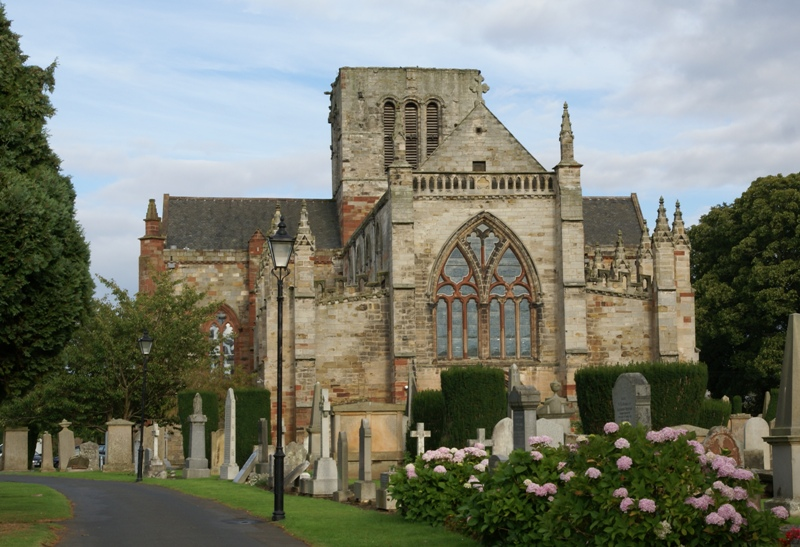 St Mary's Church, Haddington, Scotland.